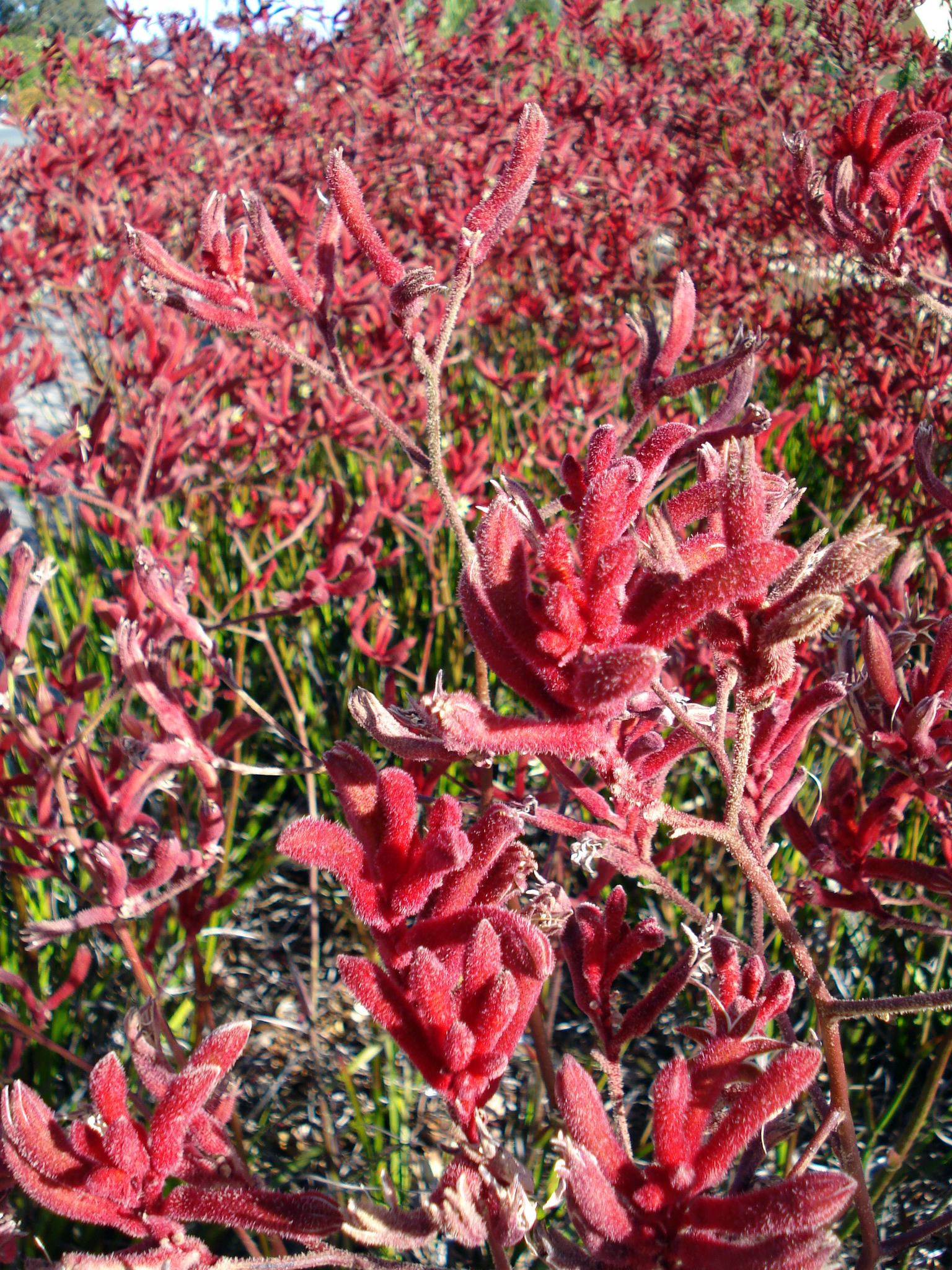 Kangaroo Paw (Anigozanthos) at ECU Mt Lawley campus, Western Australia (31°55′6.1″S 115°52′8.8″E / 31.918361°S 115.869111°E)